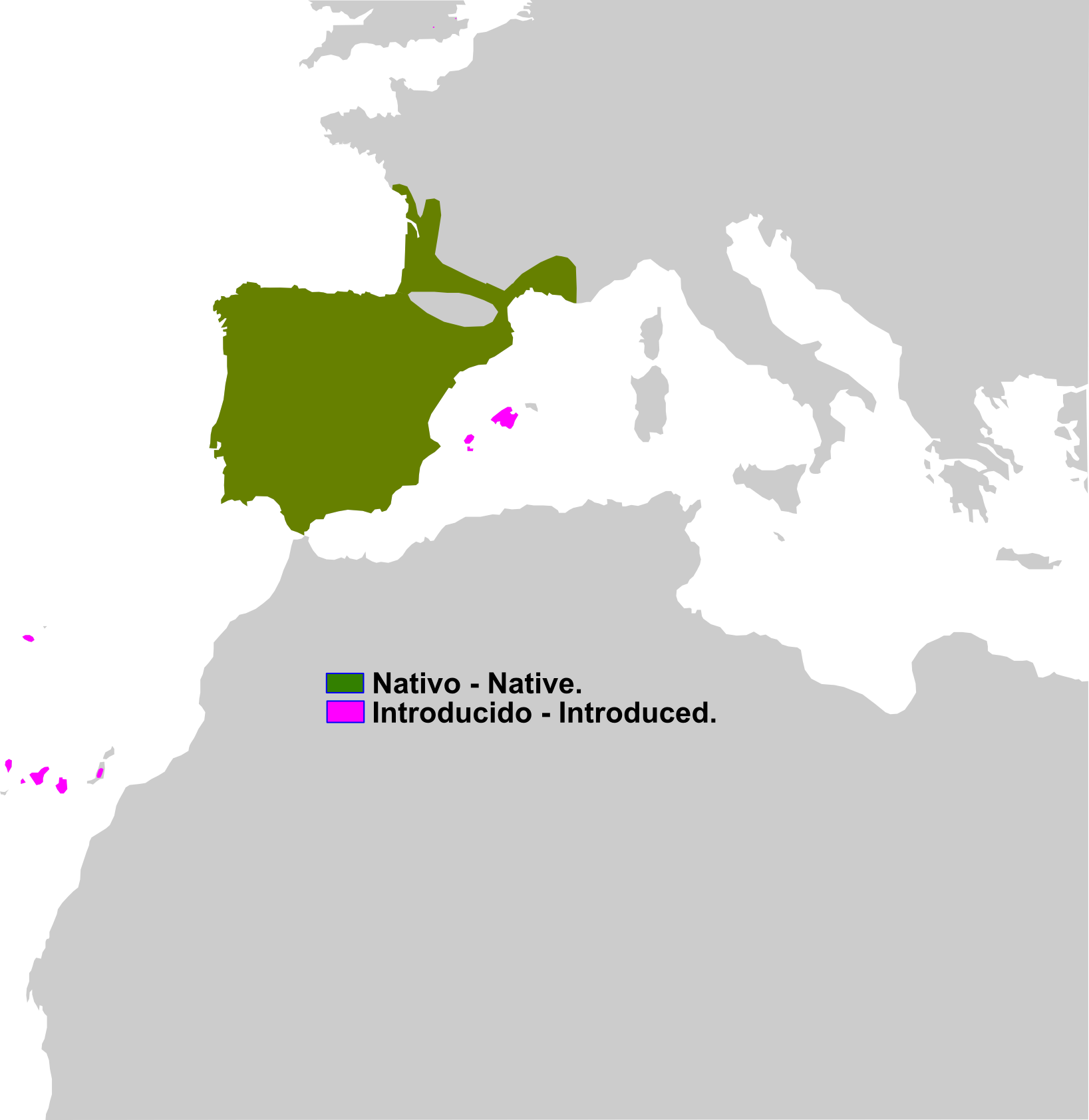 Pelophylax perezi range map.